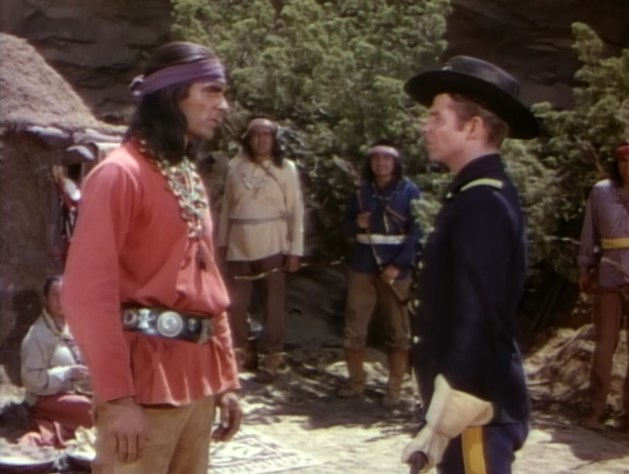 This image is a screenshot from a public domain trailer for the 1953 film, Column South. Trailers for movies released before 1964 are in the Public Domain because they were never separately copyrighted.